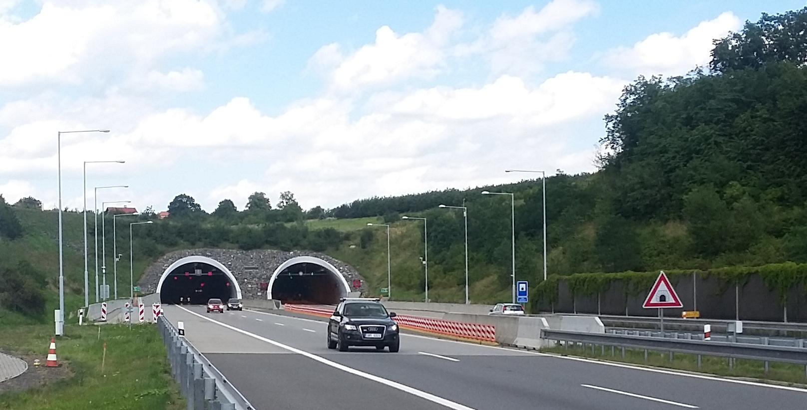 Klimkovice Tunnel, southern portal, 2016